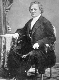 Carl Olof Rosenius